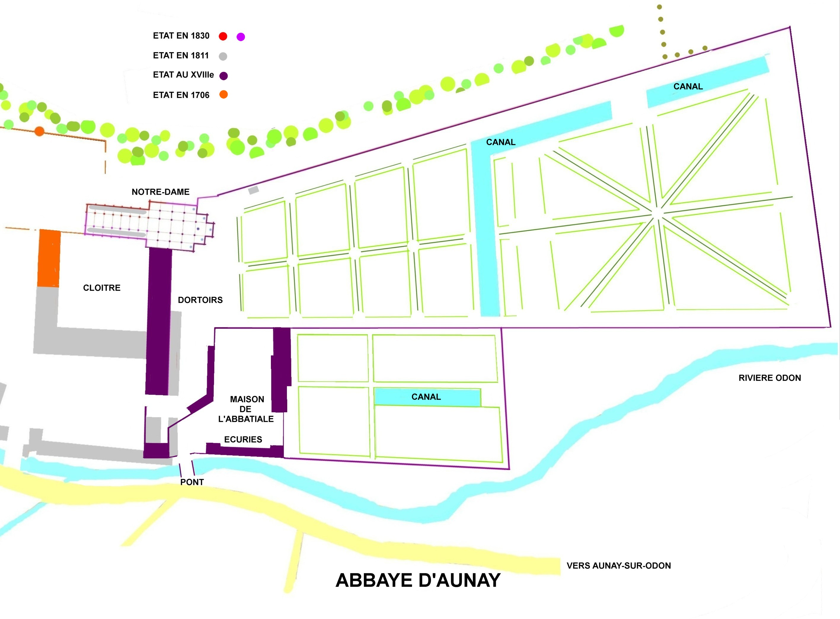 Abbaye d'Aunay, Plan de Masse